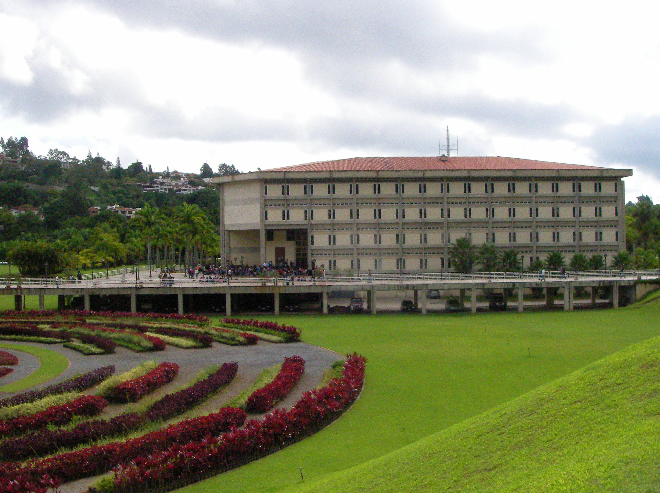 View of the Library and the Chromo-Vegetal Labyrinth.